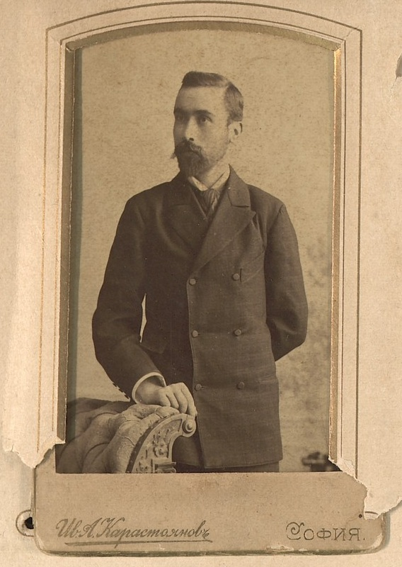 Kosta Arseniev